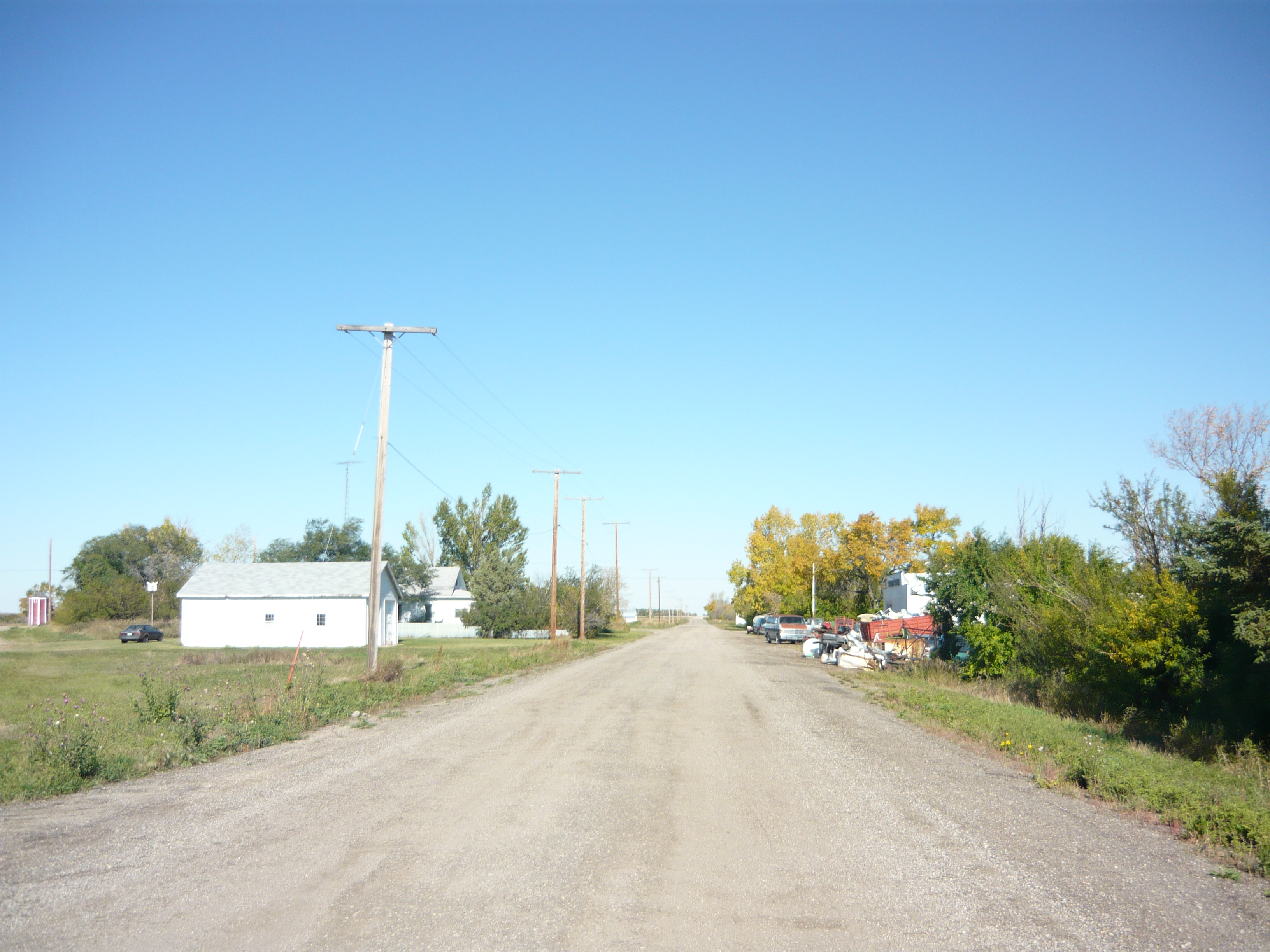 Unincorporated community of Girvin, Rural Municipality of Arm River, Saskatchewan, Canada. View northward on King Street, from Alexandria Street.